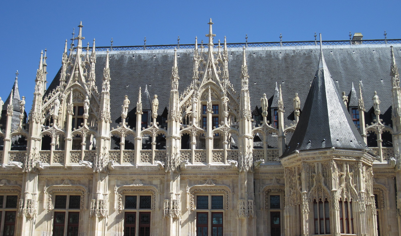 Law courts, Rouen, August 2009